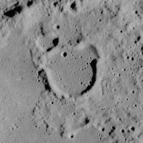 Esclangon, on the moon. Camera altitude 245 km, sun elevation 14 deg.